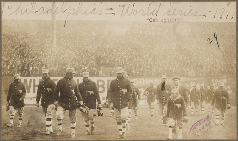 Accession No.: 06_06_000017 Title: Philadelphia Athletics on field at Shibe Park, 1911 World Series Caption: Philadelphia's World Series 1911 Creator: Luke, T.A. Date: 1911 Format: photograph Description: Athletics third baseman Frank Baker is second from left. Baker hit two home runs in the series as the Athletics beat the New York Giants, earning him the nickname, Home Run Baker. Luke was a photographer for the Boston Post. BPL Collection: McGreevey Collection BPL Department: Print Subject: Baseball--History World Series (Baseball) (1911) Philadelphia Athletics (Baseball team) New York Giants (Baseball team) Baseball players--1910-1920 Sports spectators